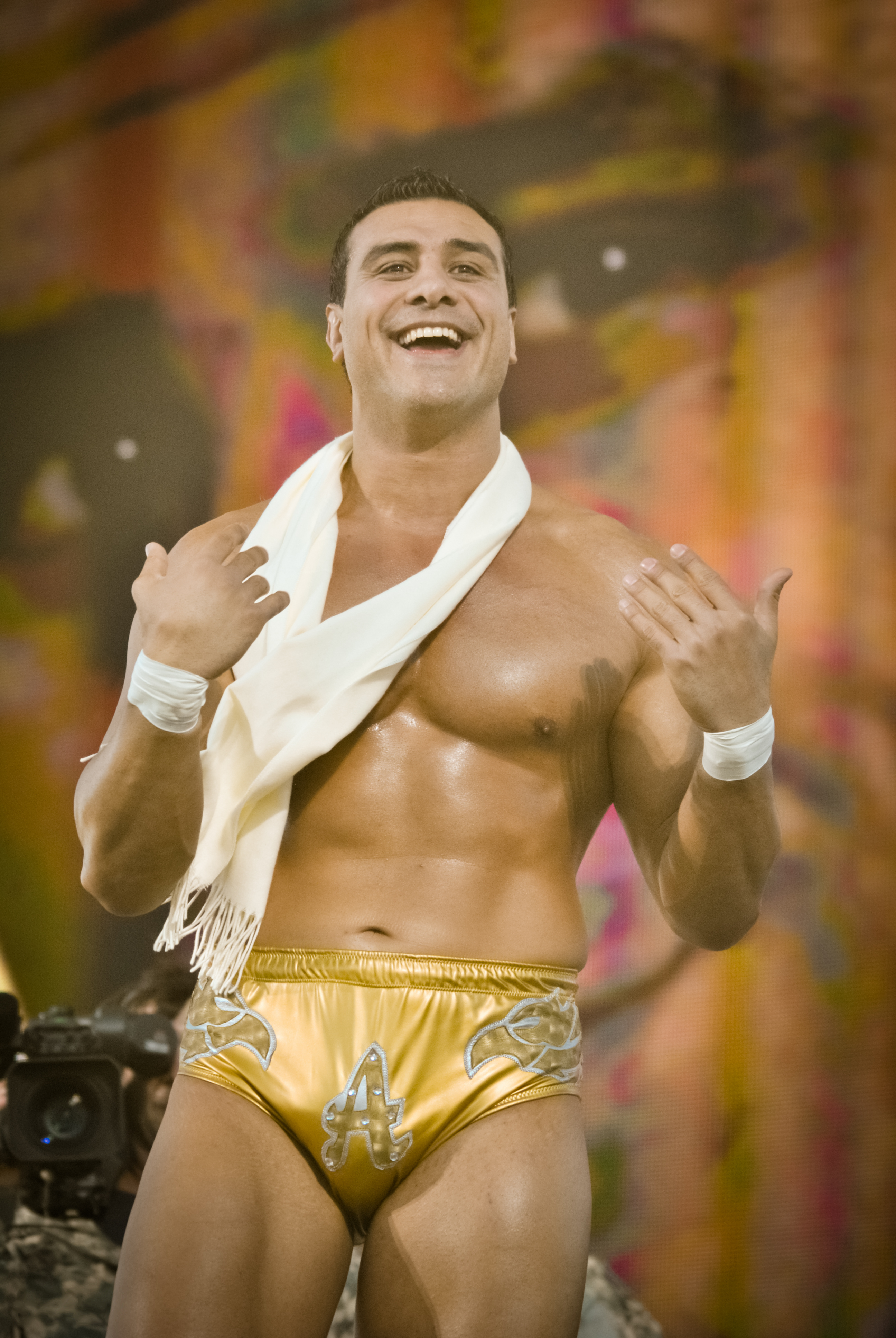 Alberto Del Rio at Fort Hood, Texas for WWE's Tribute to the Troops show on December 11, 2010.